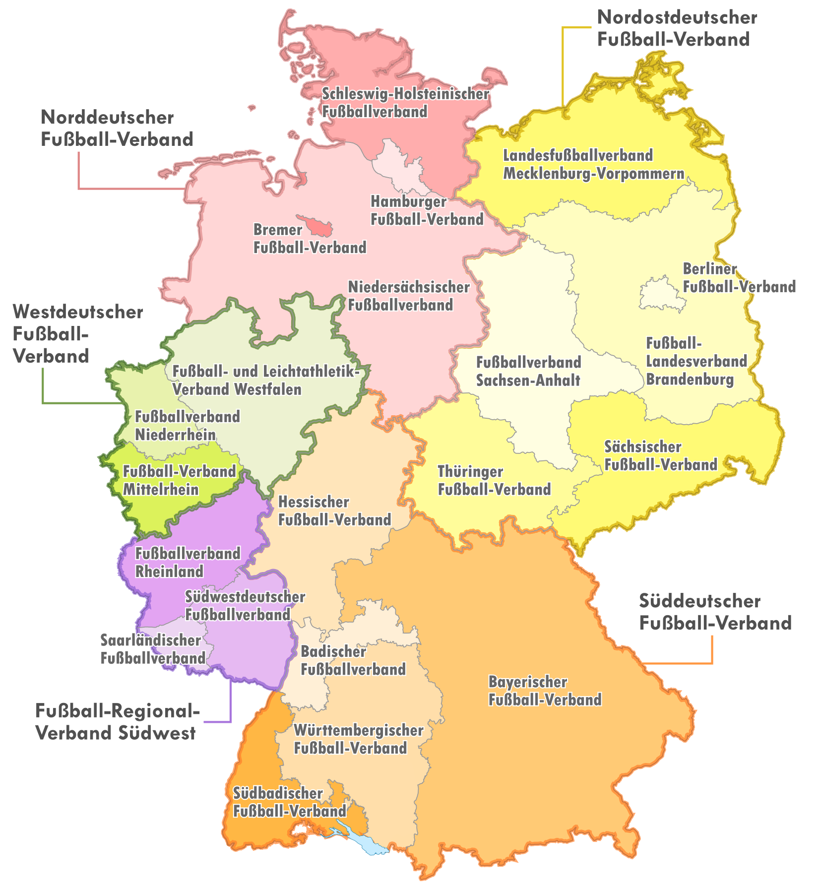 Map of regional soccer associations in Germany, members of the Federal Soccer Federation DFB